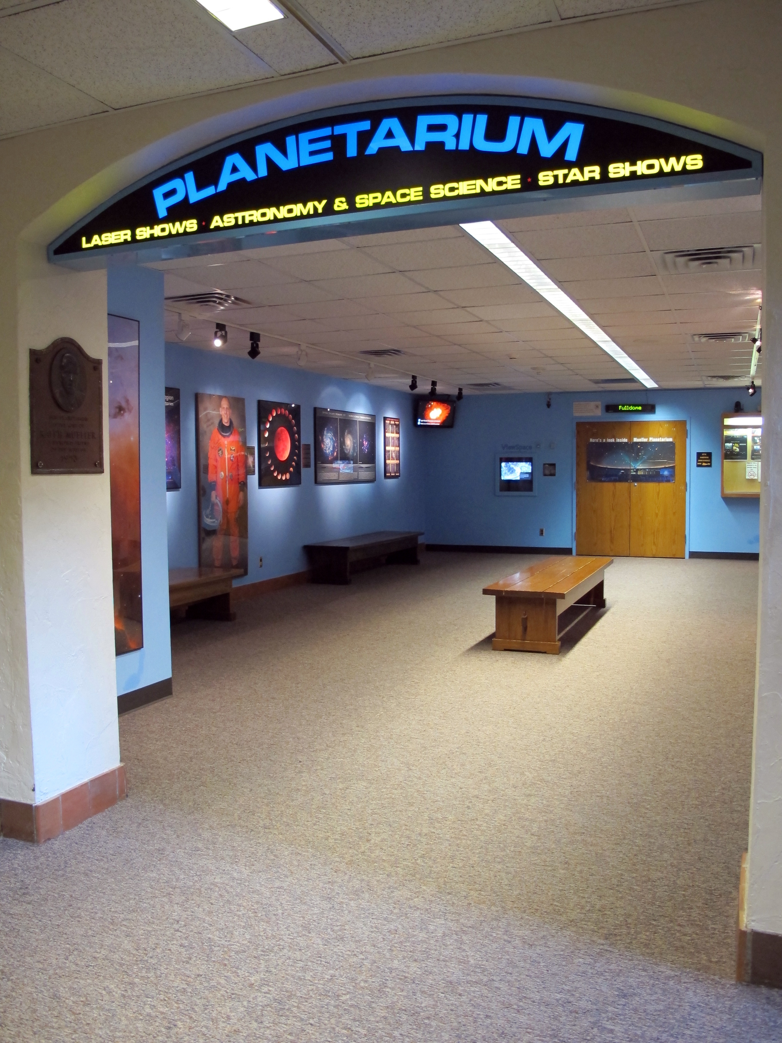 Photo of the Mueller Planetarium waiting area in Morrill Hall (645 N. 14th Street), on the University of Nebraska-Lincoln city campus in Lincoln, Nebraska. Photo is looking generally south (and southeast) into the waiting area of the Planetarium.